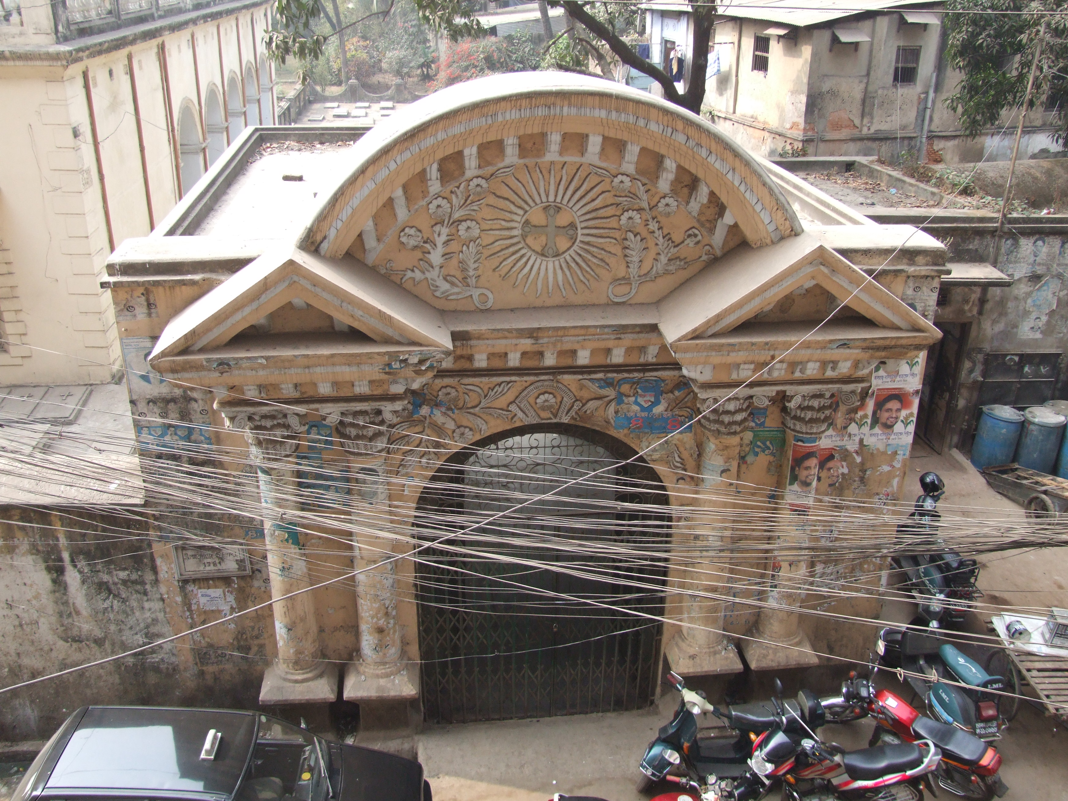 Entrance of Armenian Church in Old Dhaka, Bangladesh. My Students, "Arafat & Hossien" helped me taking this picture.